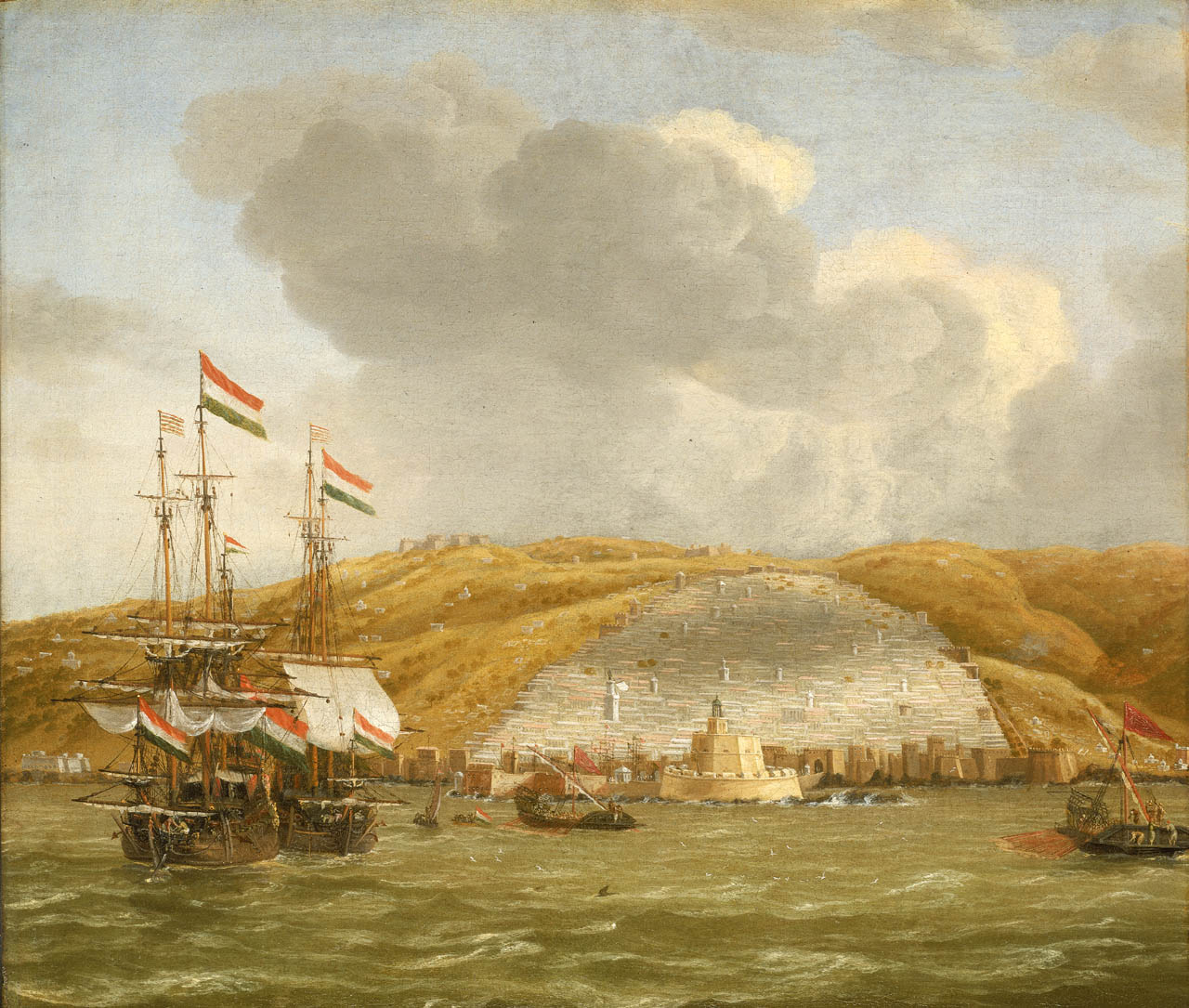 An representation of Dutch shipping off the harbour and city of Algiers. The principal ships fly the Dutch flag and are possibly merchantmen of the Dutch Company. The vessels in the centre and the far right are Mediterranean galleys. The town of Algiers rises on the hill behind the port with its distinctive fortified lighthouse at the end of the mole. A pair of dolphins is depicted in the foreground in the bay, a typical motif of Dutch marine artists.